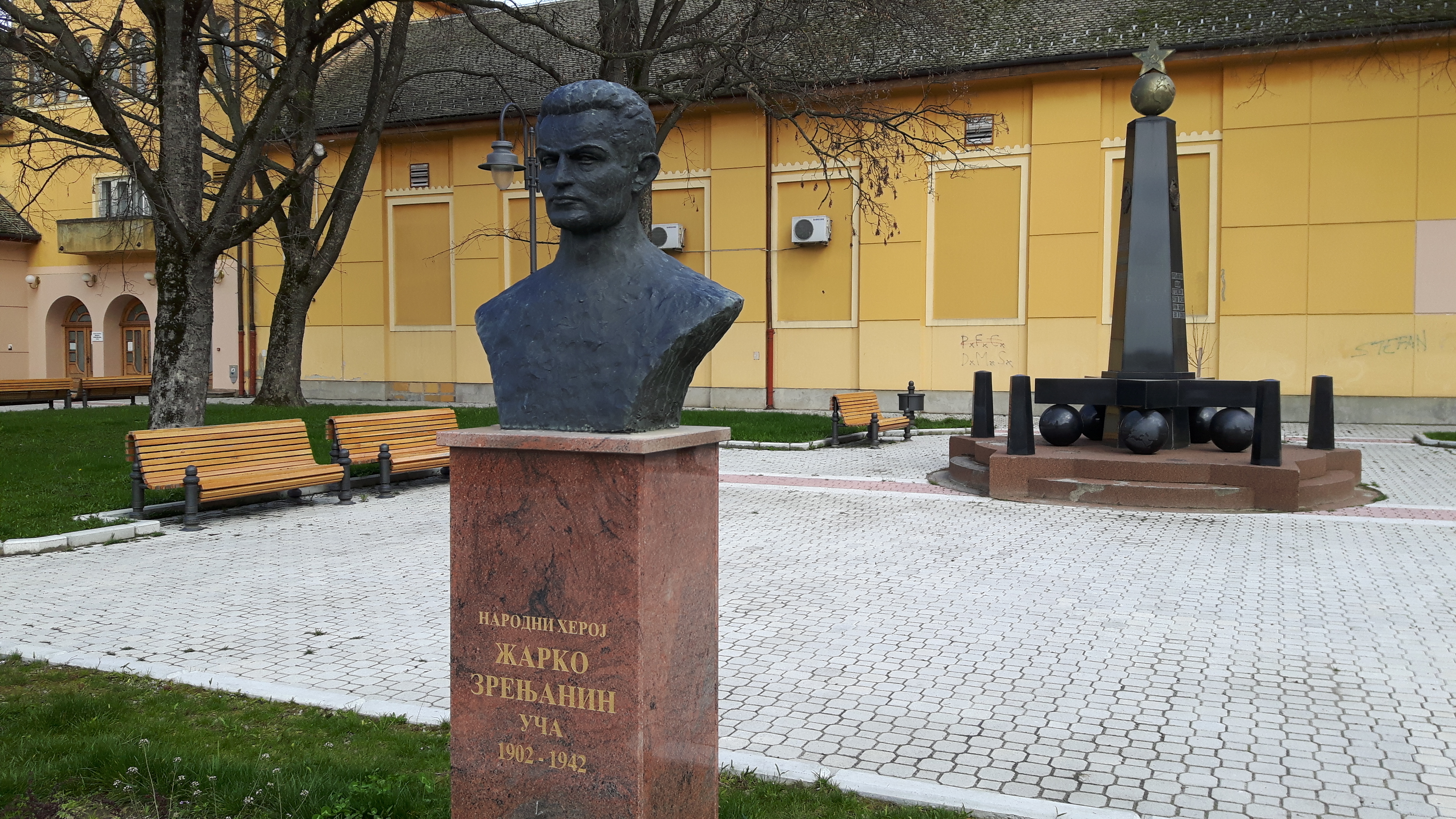 Bust of the People's hero of Yugoslavia, Žarko Zrenjanin - Uča (1902-1942), Apatin.